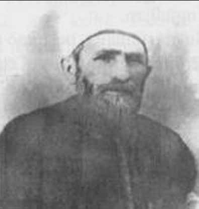 Vehbi Dibra